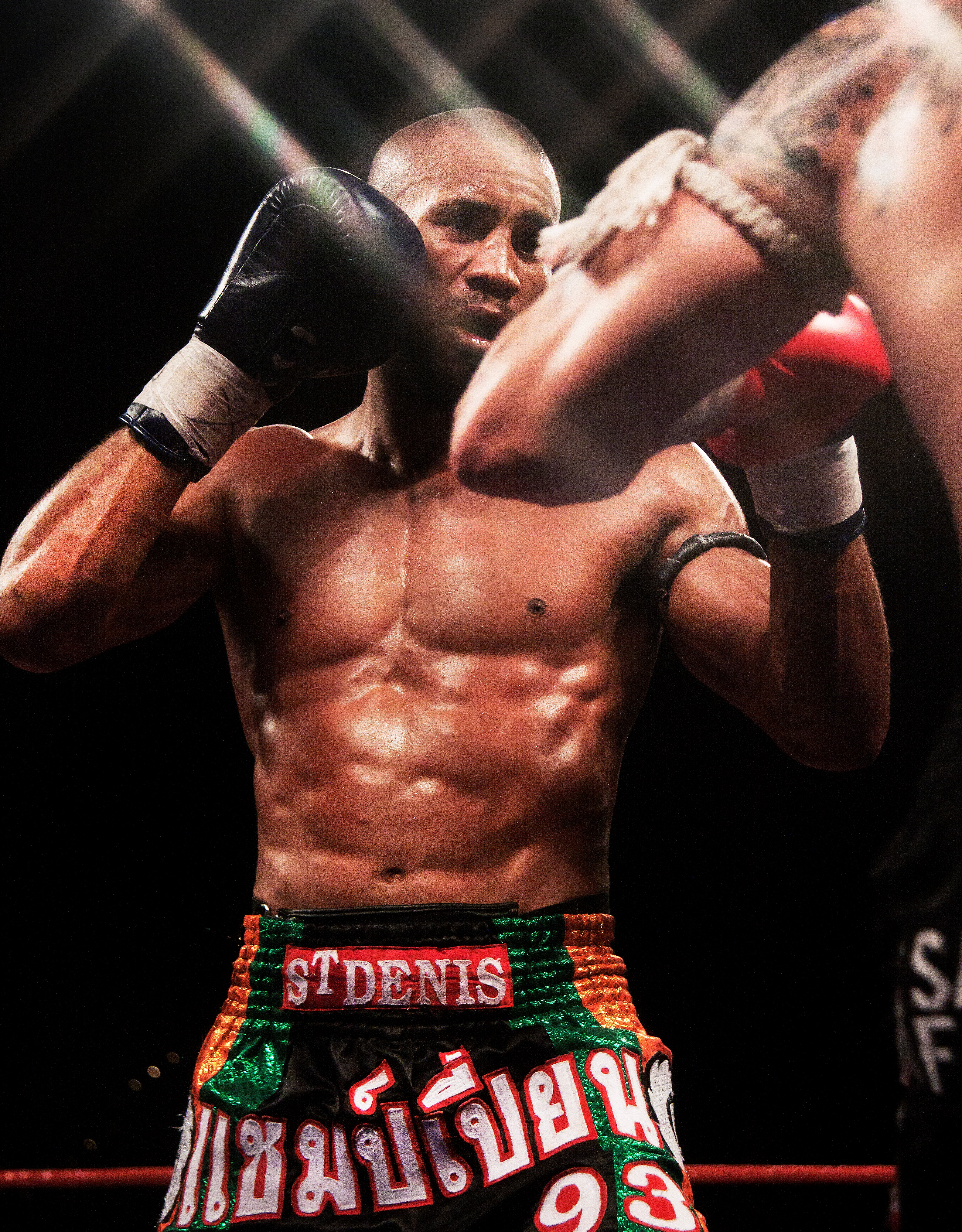 Gregory Choplin @ Battle in the Desert II, Buffalo Bills Casino, Primm, NV